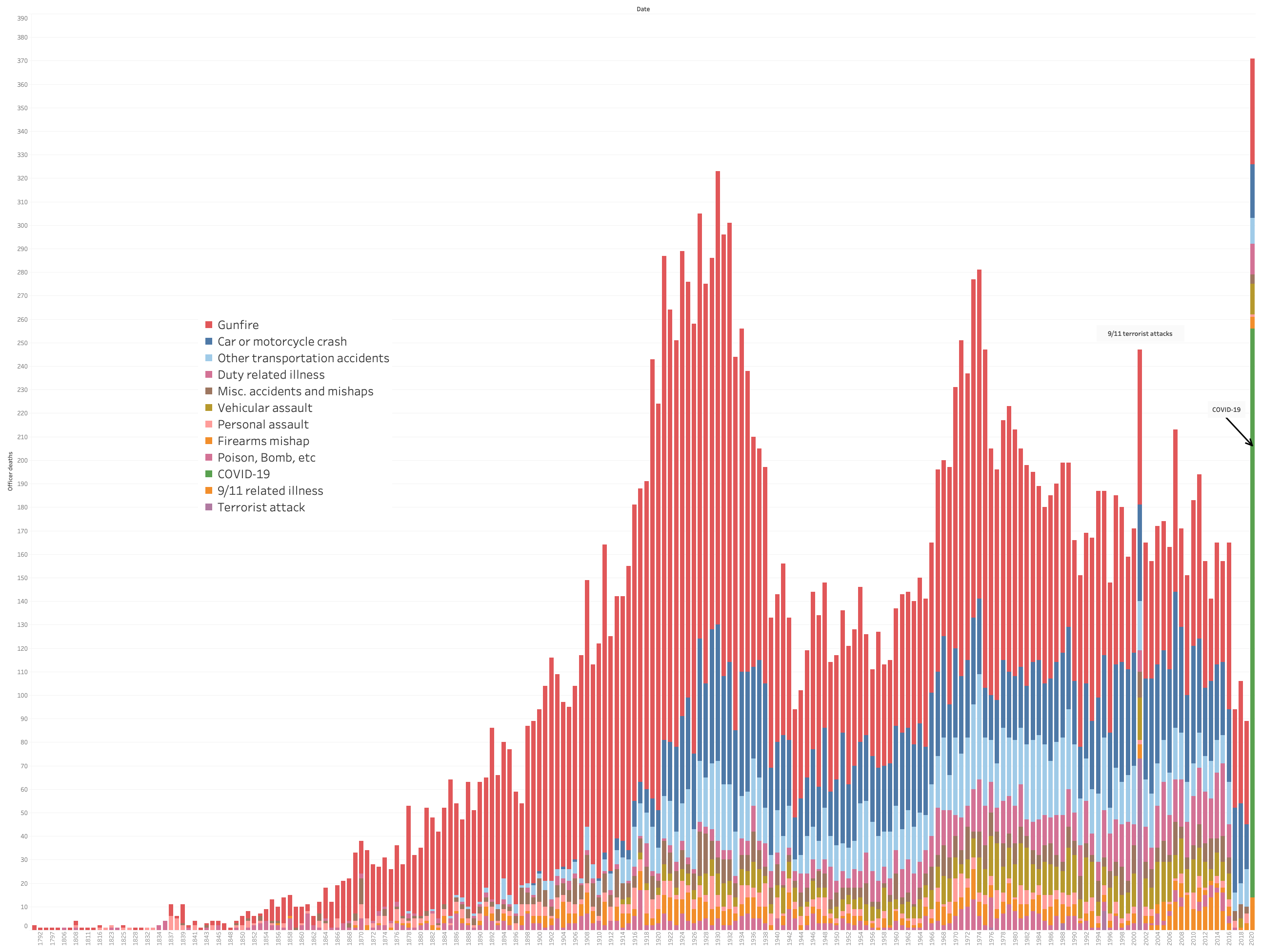 Area chart of US law enforcement officer deaths in the line of duty from January 3, 1791 through December 31, 2016. Cause of death grouped by general type, shown by color. Excludes K9 animal deaths. Data sources: Officer Down Memorial Page and The 52 Best — And Weirdest — Charts We Made In 2016. Andrei Scheinkman. . December 30, 3016.